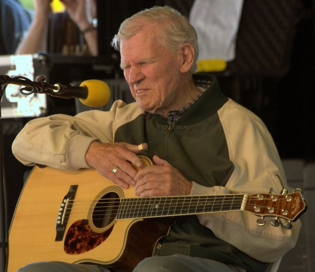 Doc Watson's last performance, MerleFest, 2012. Photo by Forrest L. Smith, III.